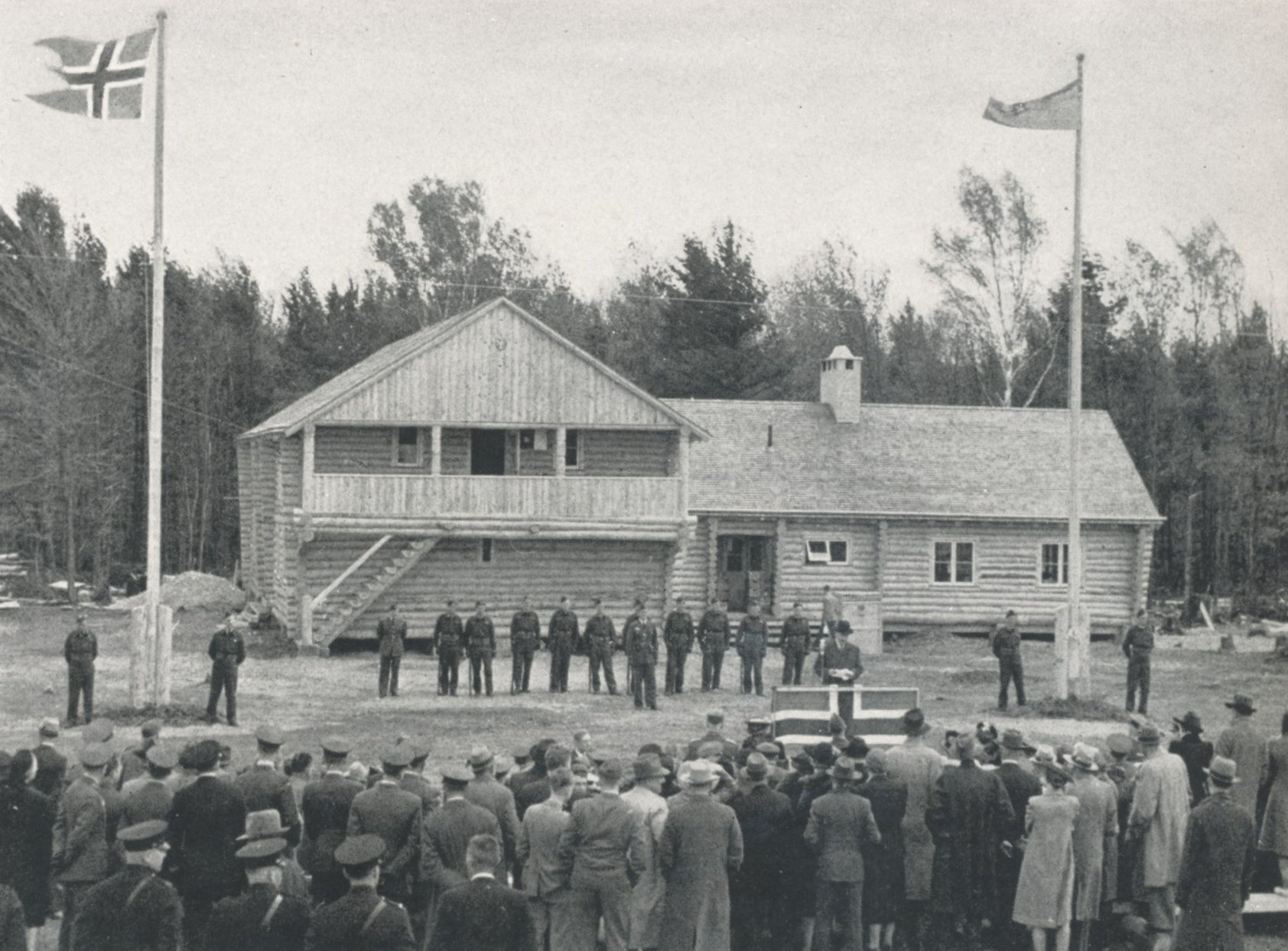 From the opening of the Little Norway camp at Muskoka, 4. May 1942